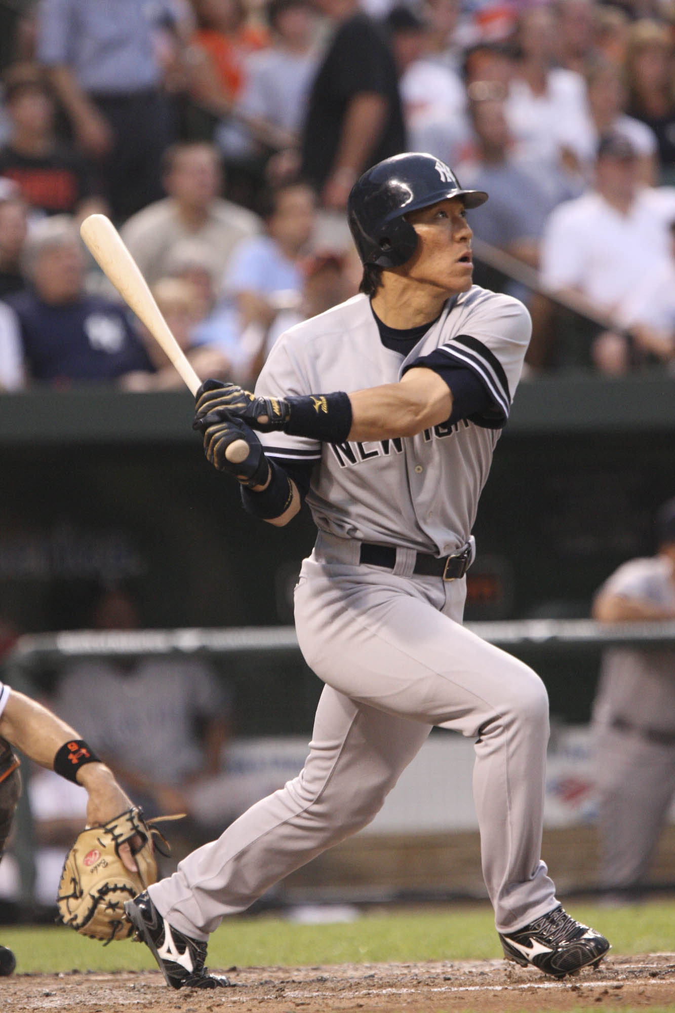 Hideki Matsui Reprint from Flickr